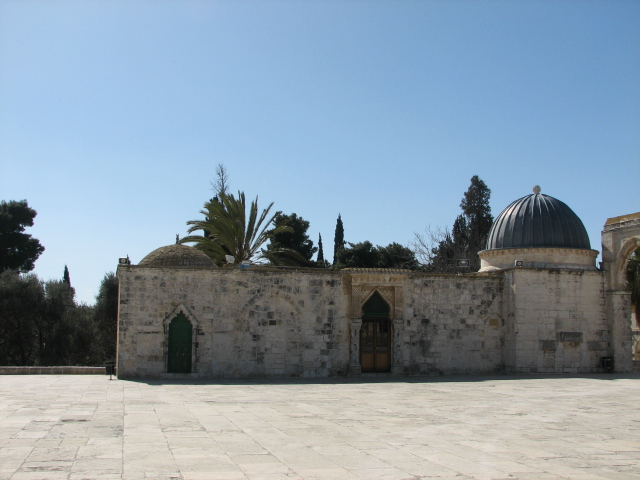 Al-Aqsa Mosque